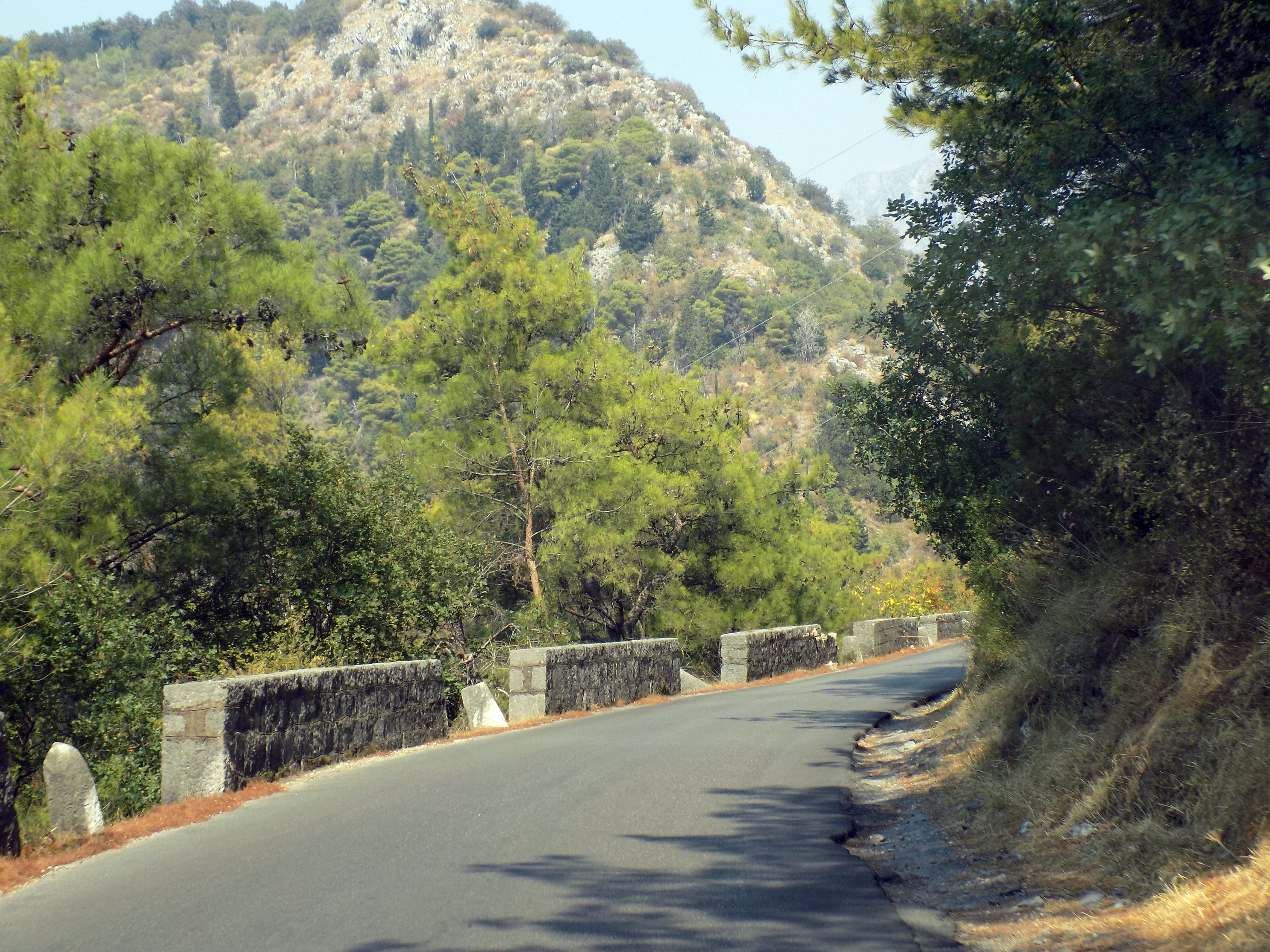 R-1 regional road (Montenegro) - stone fence and built parapets